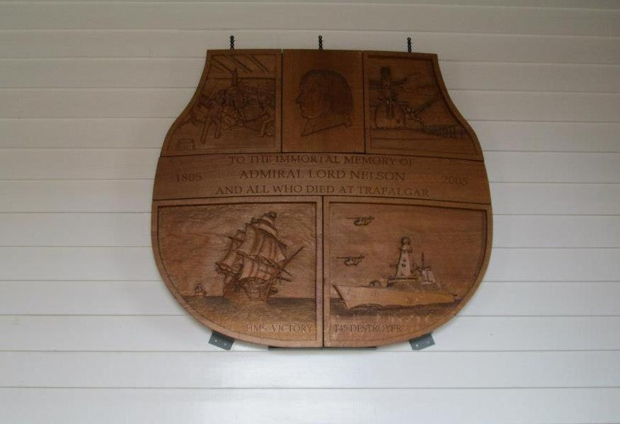 Trafalgar battle Memorial for Lord Nelson and all those who died.